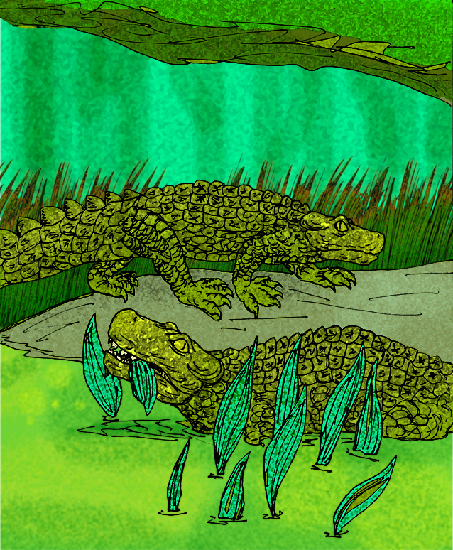 My reconstruction of the Malagasy crocodilian, Simosuchus clarki, of the Early Cretaceous. (C) Stanton F. Fink